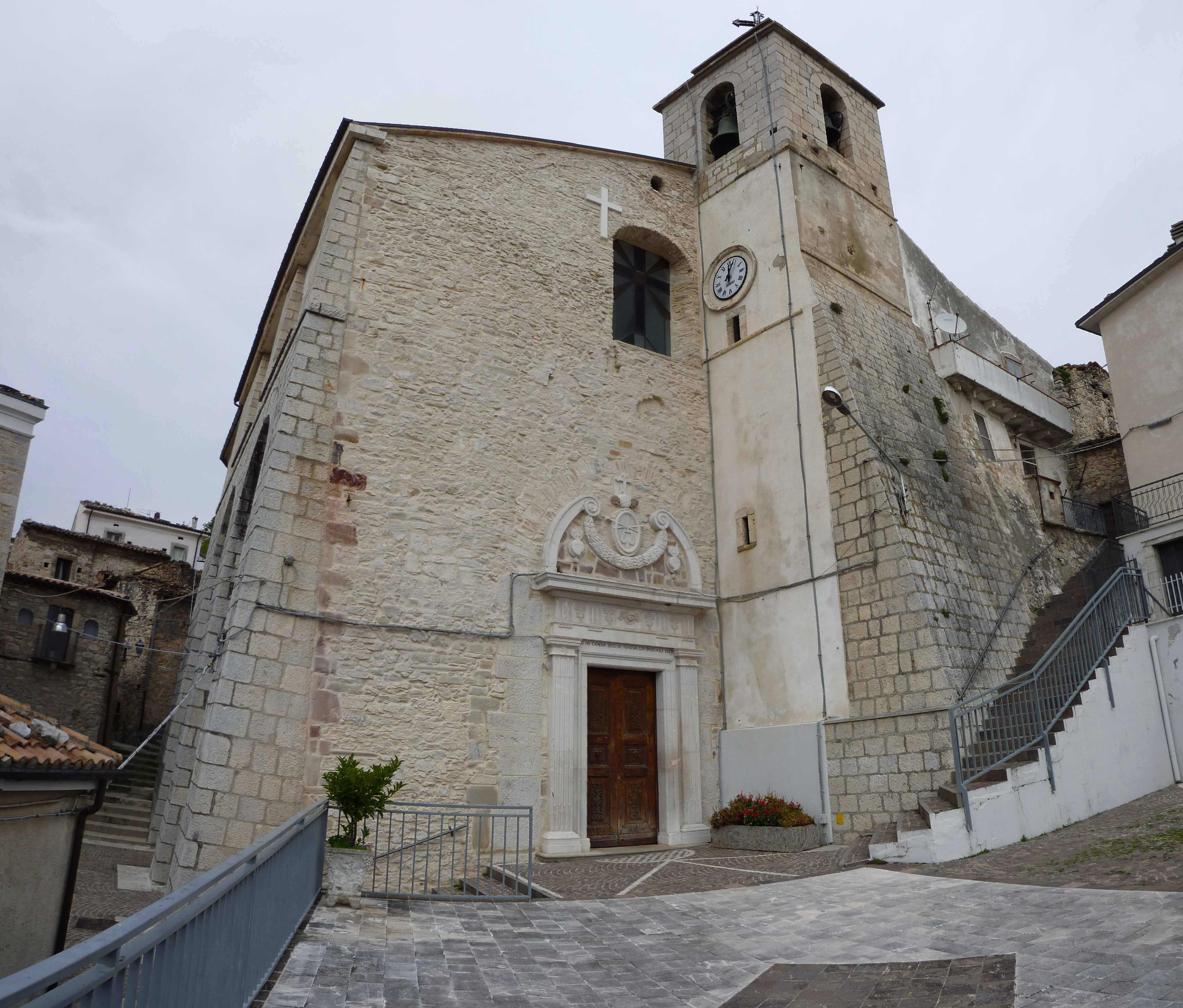 The church of San Michele Arcangelo in Montelapiano, in the province of Chieti, Abruzzo